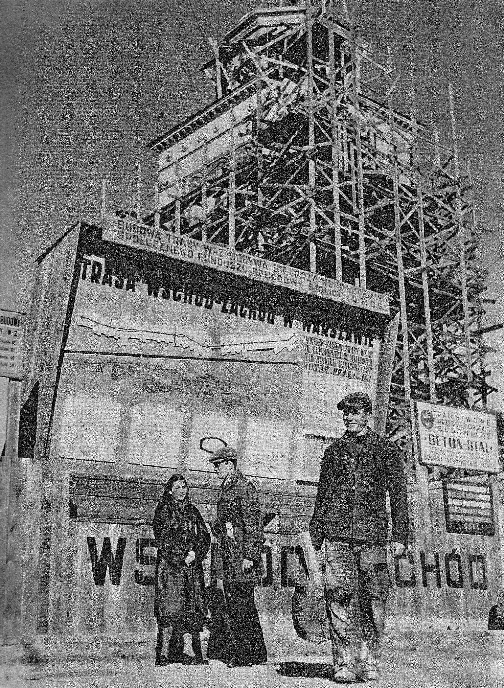 Information board near the entrance to the construction site of W-Z (Easte-West) Route in Warsaw